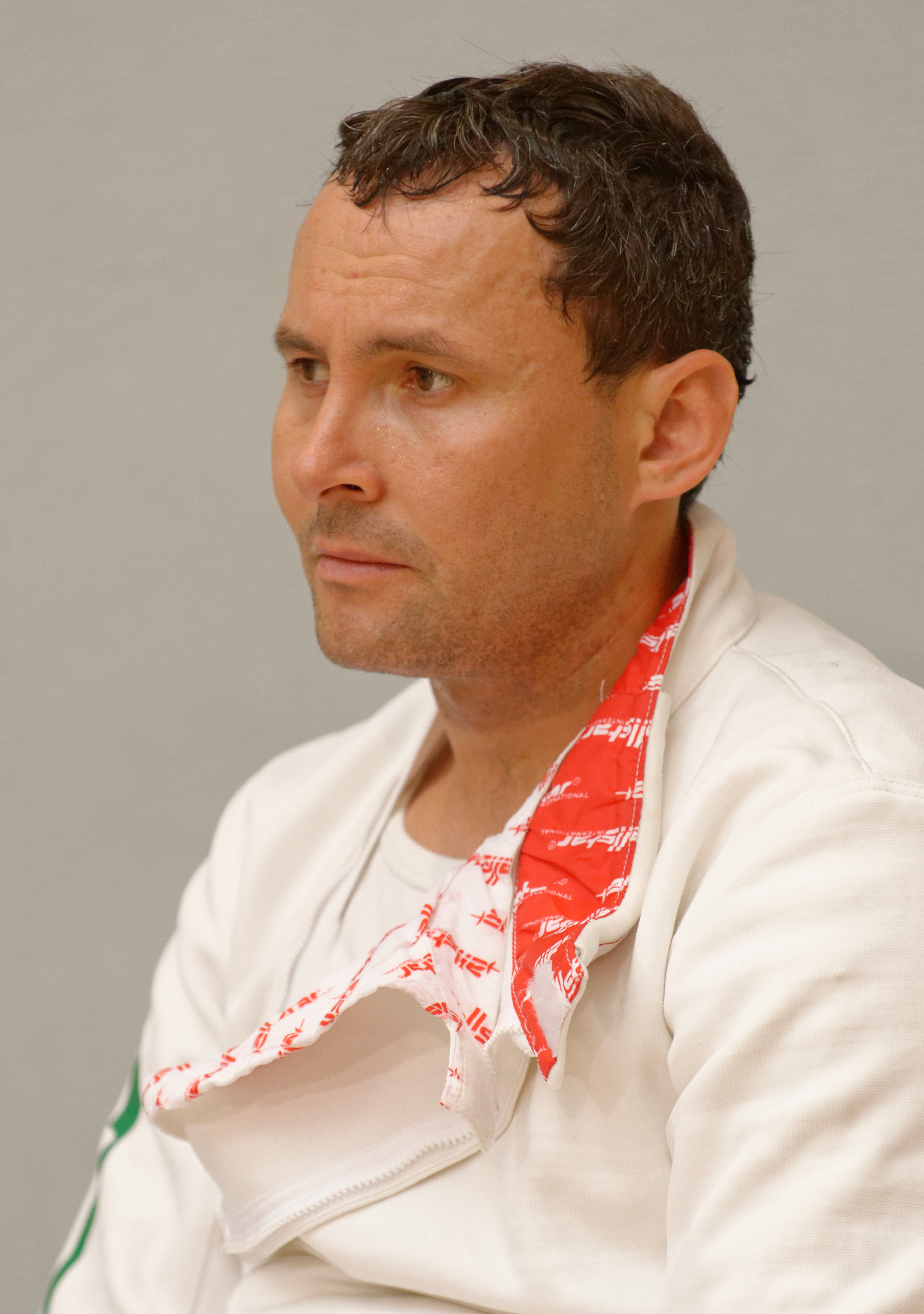 Uzbekistan's Ruslan Kudayev at the qualification stage of the Challenge SNCF Réseau-Trophée Monal 2015, a stage of the men's épée World Cup.